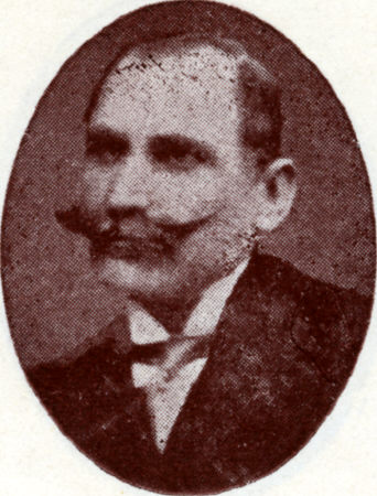 Dimitrios Koukouletsos (19th c.-20th c.): Greek politician